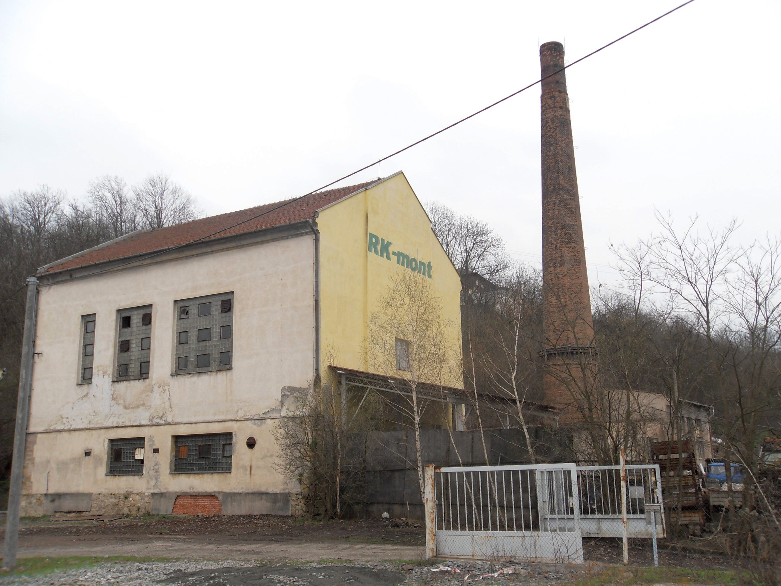 Former Františka coal mine, Padochov, Oslavany, Brno-venkov District, Czech Republic